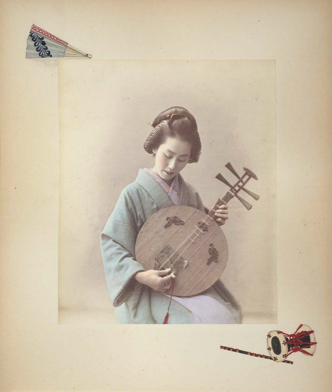 Portrait of a Woman Playing a Moon Zither (Gekkin), Japan, by Adolfo Farsari (1841–1898). Hand-coloured albumen print on a decorated album page, negative exposed c. 1886.